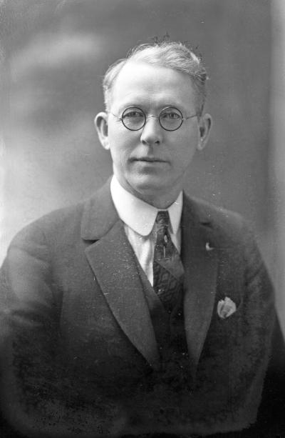 Senator E. J. Cleary